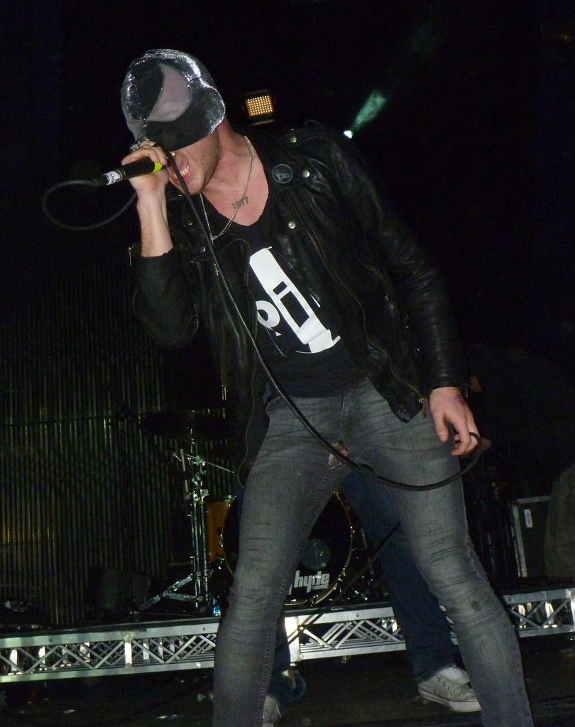 Bob Rifo from The Bloody Beetroots Death Crew 77 at Creamfields Sydney 2010.